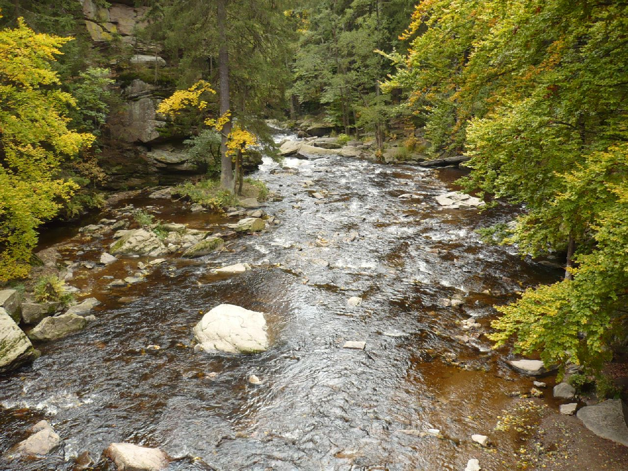 Reserve Zemska brana - Divoka Orlice river